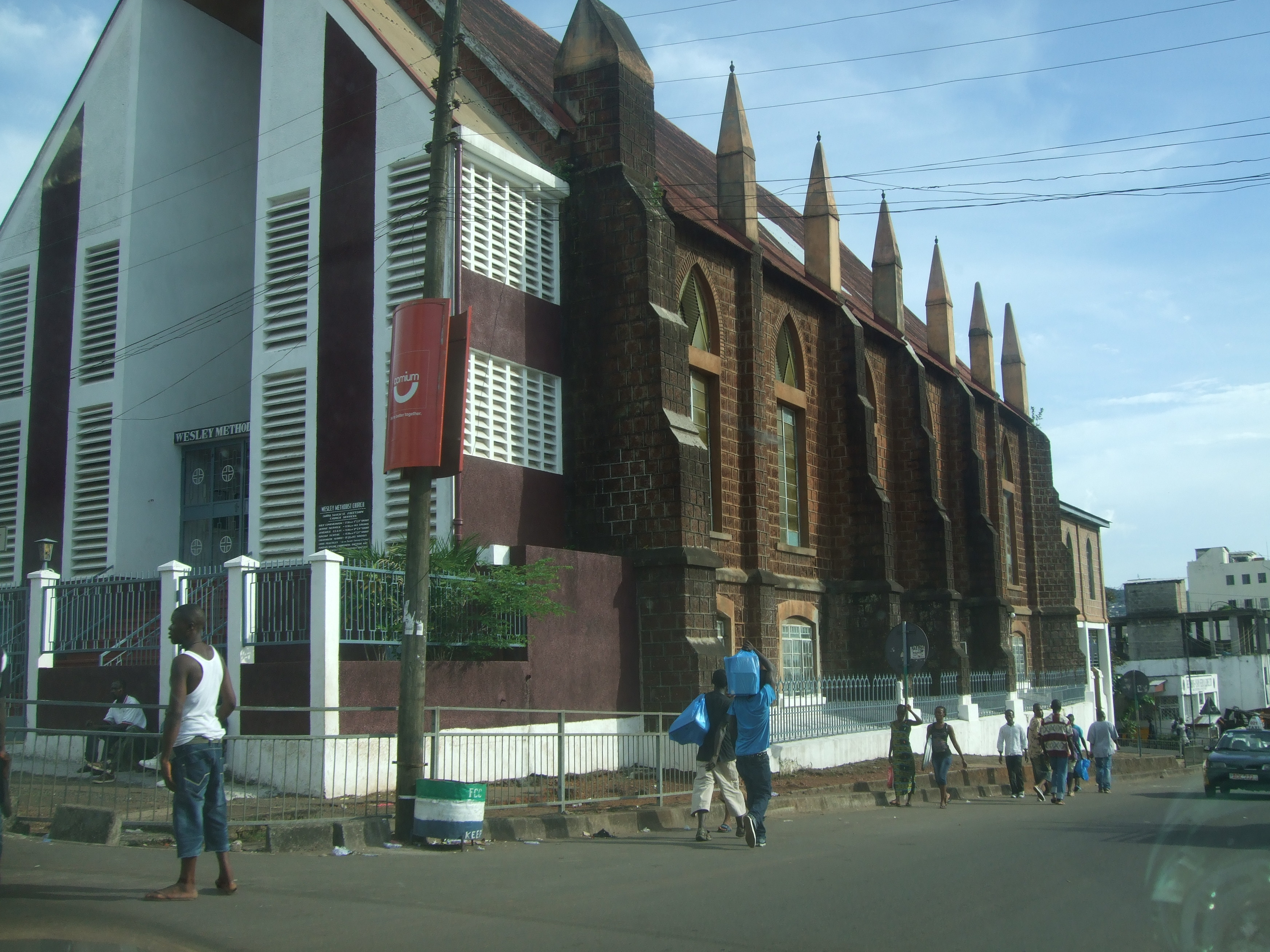 Wesley Methodist Church, Wesley Street in Freetown, Sierra Leone.